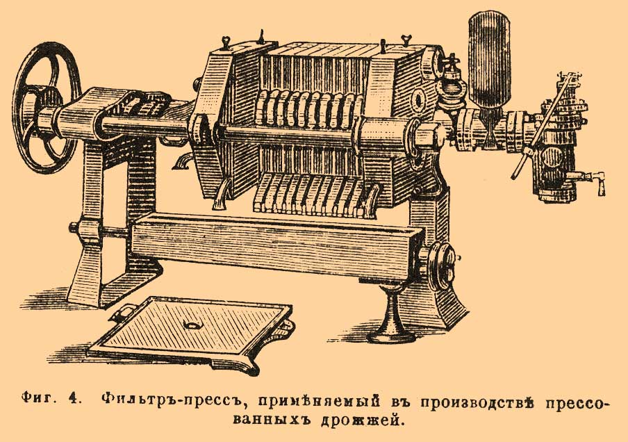 Illustration from Brockhaus and Efron Encyclopedic Dictionary (1890—1907)